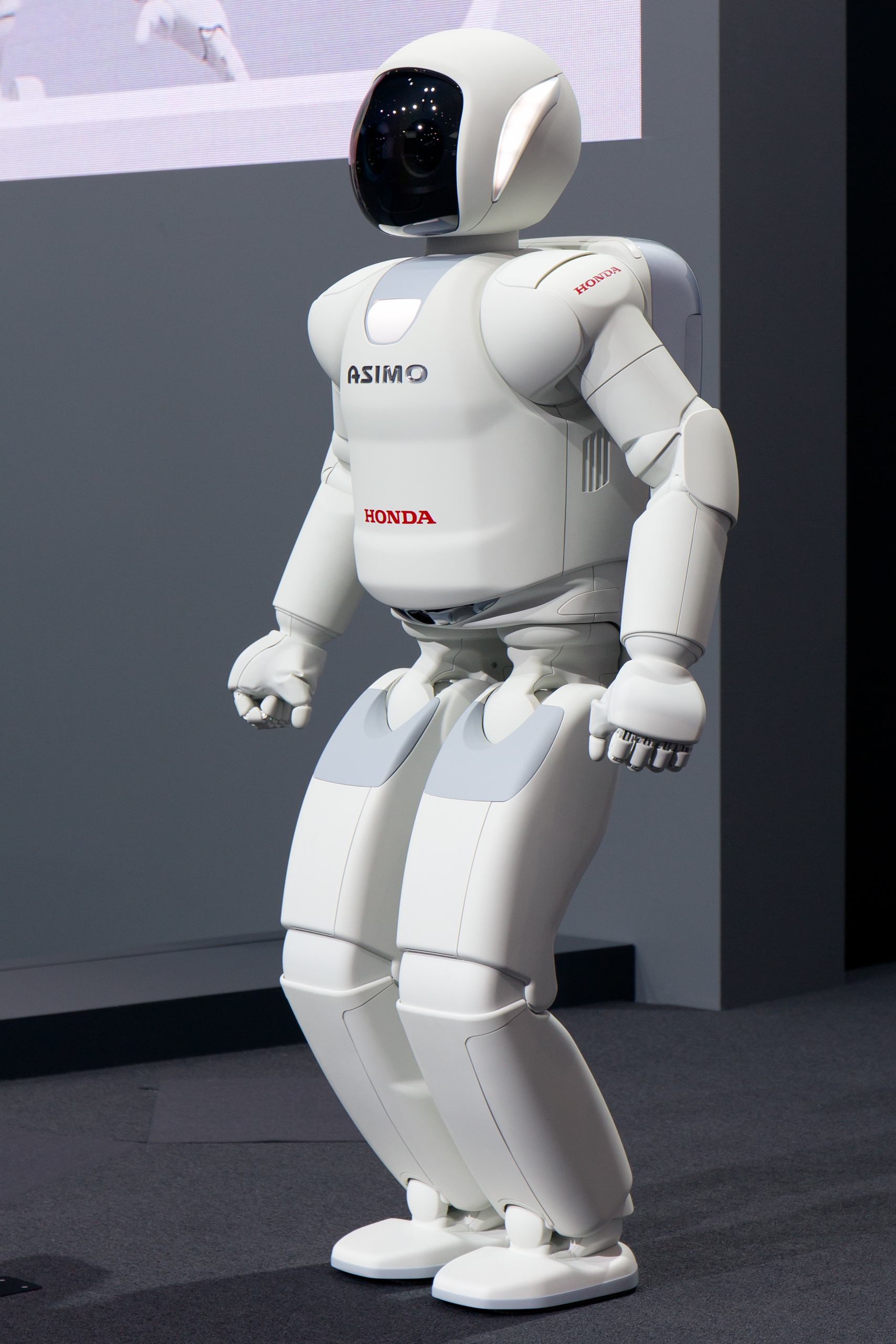 Tokyo Motor Show 2013: ASIMO